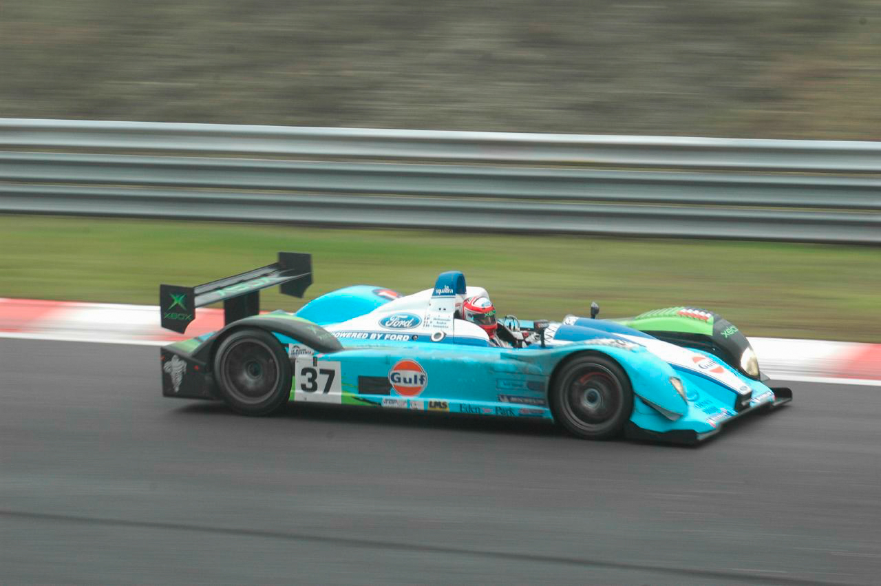 Paul Belmondo's Courage C65-Ford at the 2005 1000km of Spa